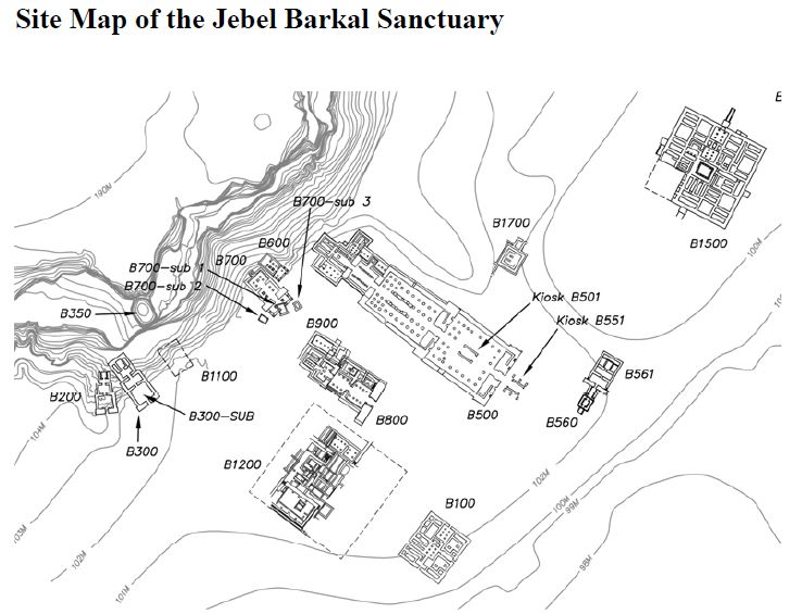 Ground Plan of Jebel Barkal